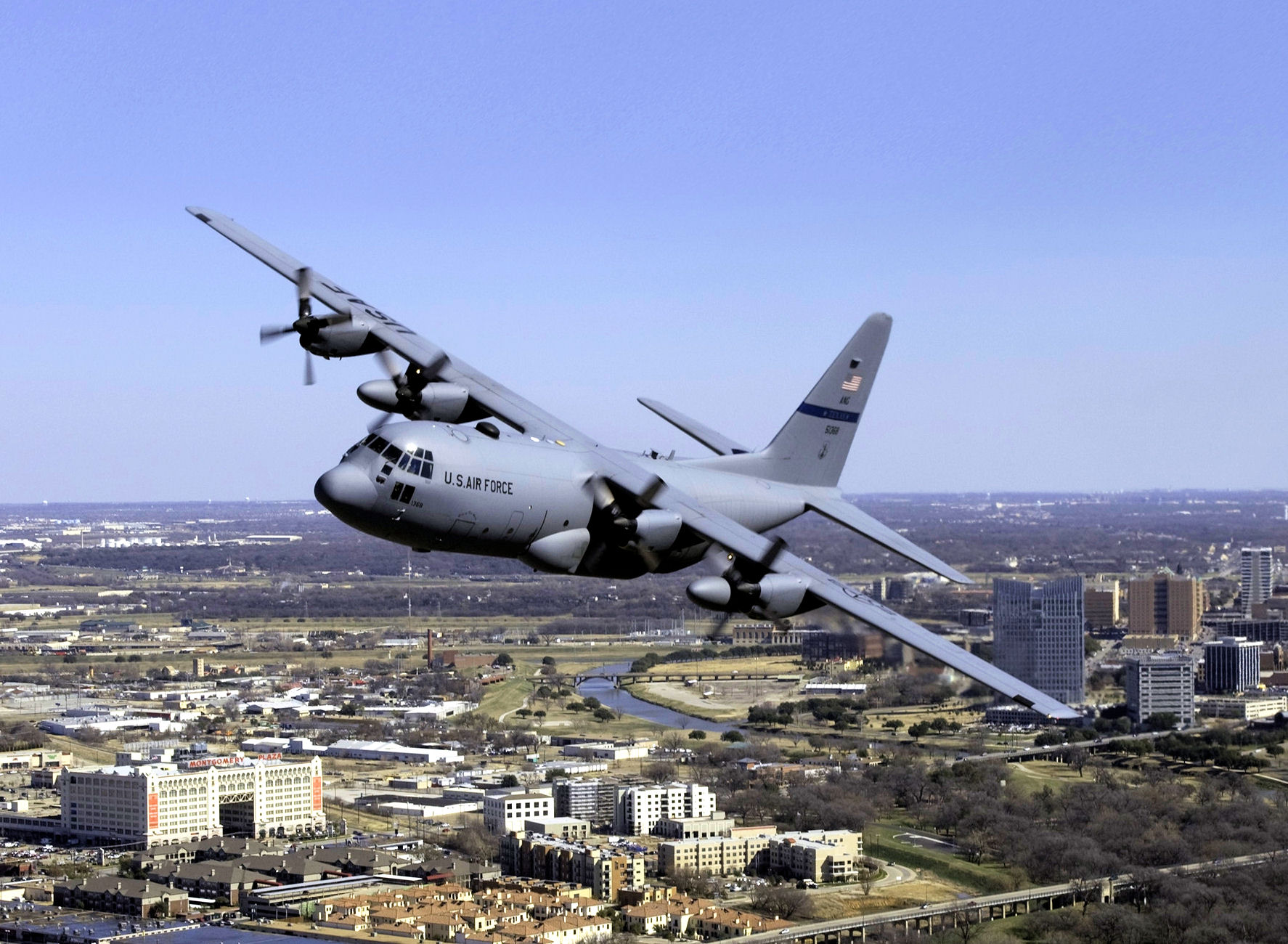 A U.S. Air Force Lockheed C-130H-LM Hercules (s/n 85-1368) from the 181st Airlift Squadron, 136th Airlift Wing, Texas Air National Guard, flying over Forth Worth, Texas (USA), on 12 January 2009 as part of public relations demonstration.